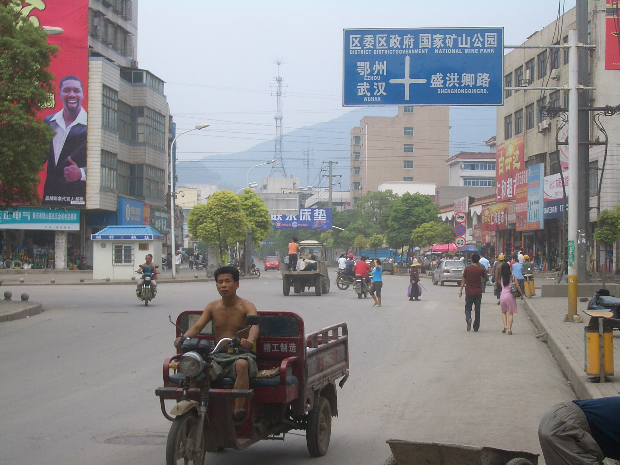 A junction on G106 in Tieshan (Huangshi Prefecture-Level City, Hubei)